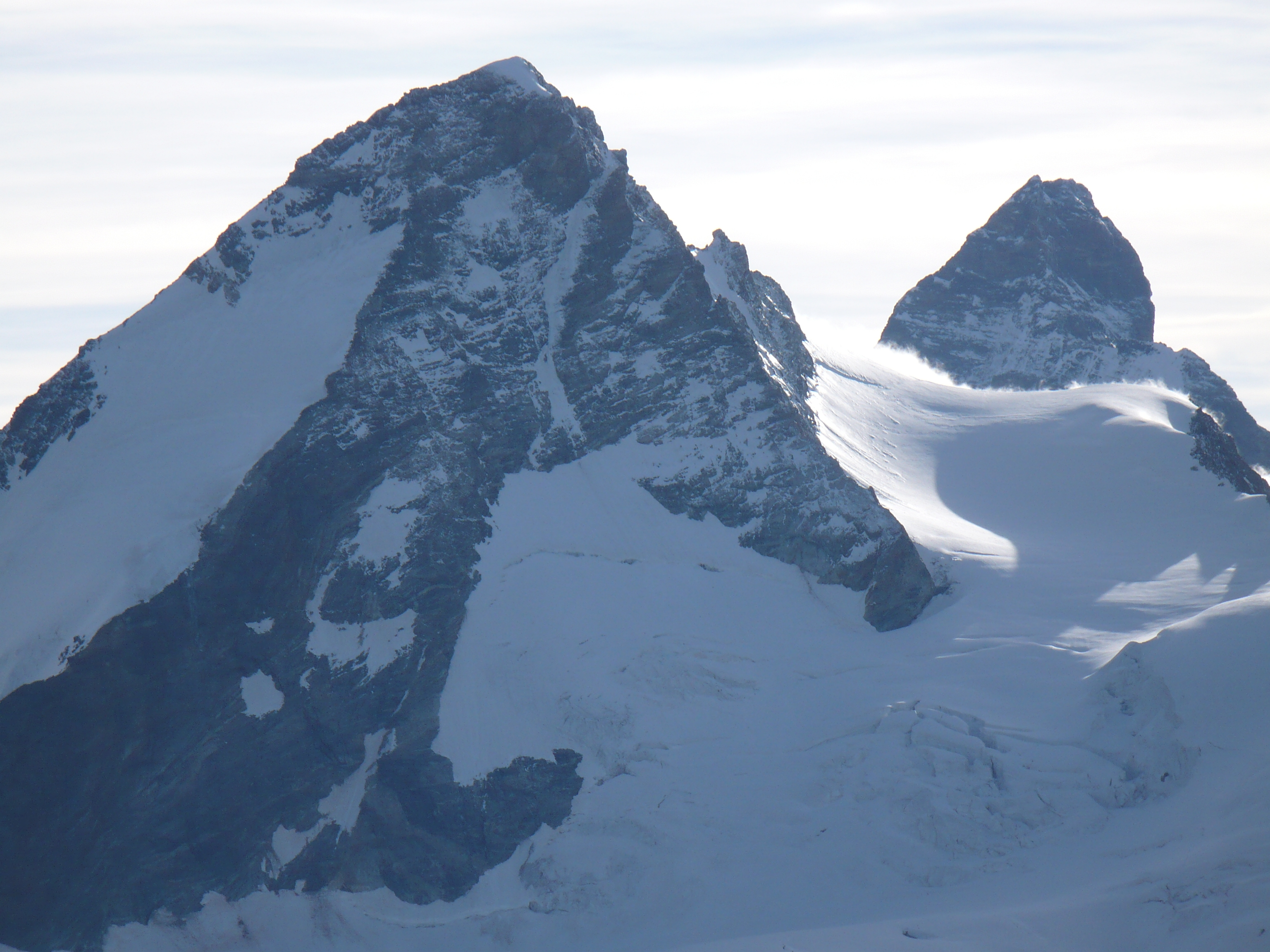 Dent d'Hérens - Pennine Alps